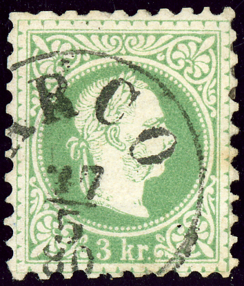 Austrian KK 3 kreuzer issue 1874 stamp, cancelled ARCO, South Tyrol, Italy, in 1880.